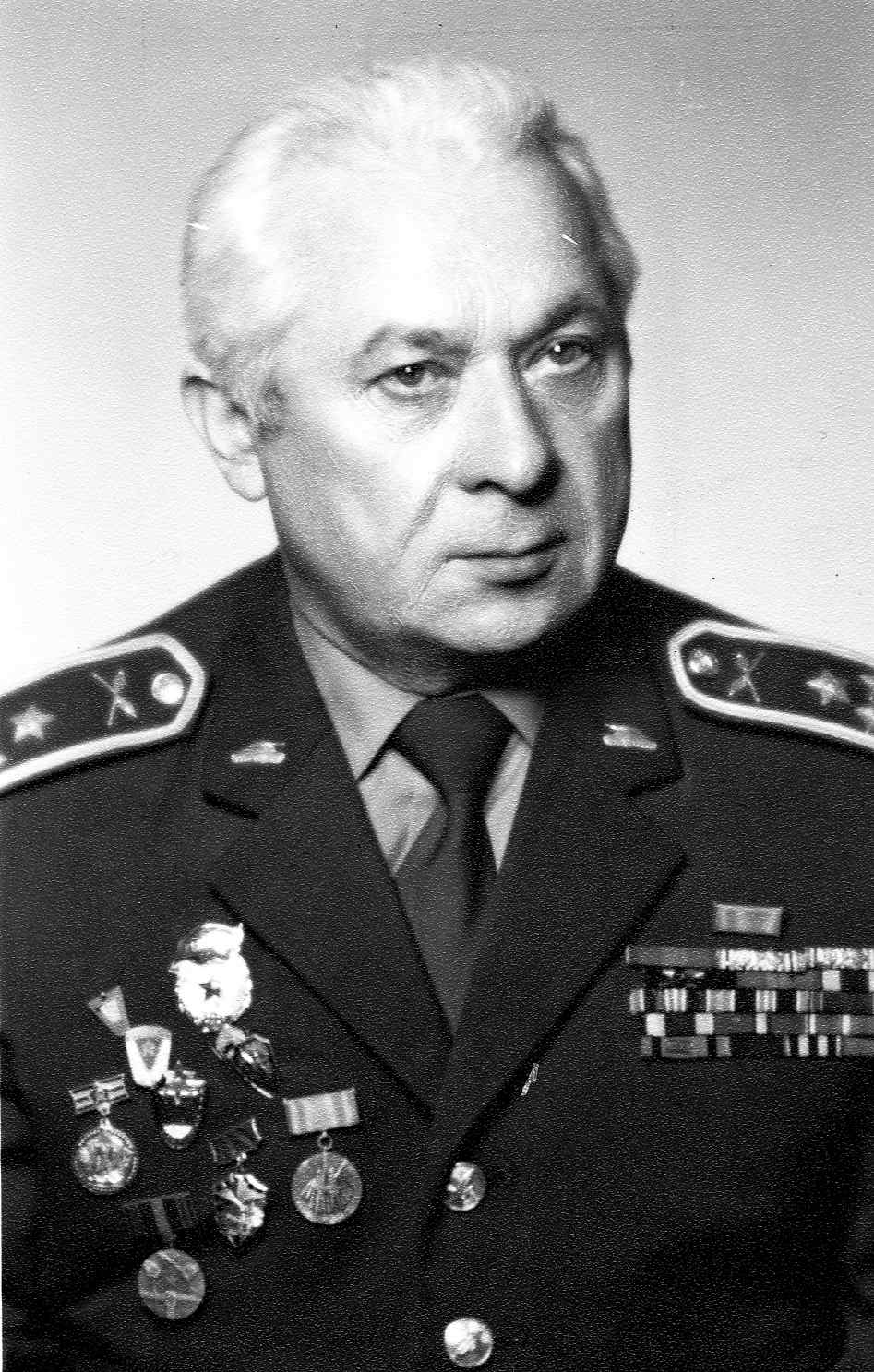 Vasil Kobulej